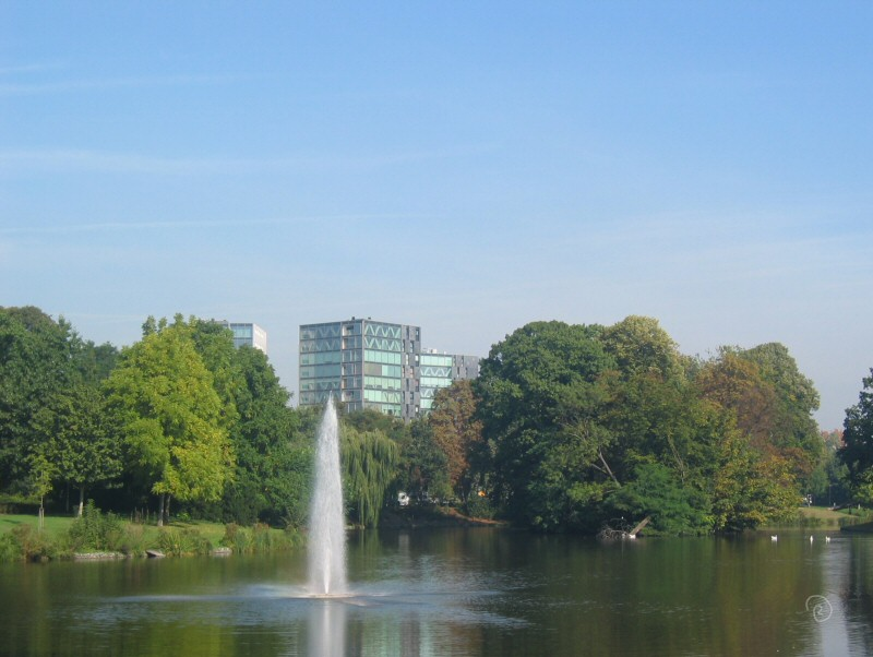 Wilhelminapark Breda, September 2003. Picture taken by J Buijs.